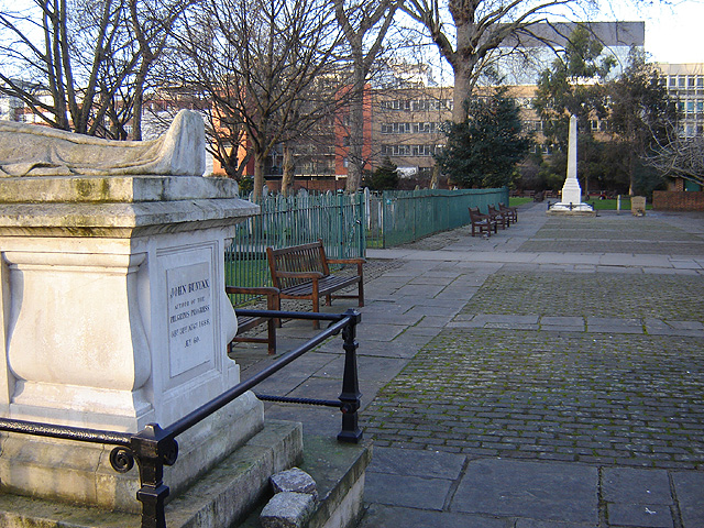 Bunhill Fields, City Road, Finsbury, London. John Bunyan's tomb (foreground) and memorials to Daniel Defoe (left) and William Blake (right) in the background. 28 January 2006. Photographer: Fin Fahey.